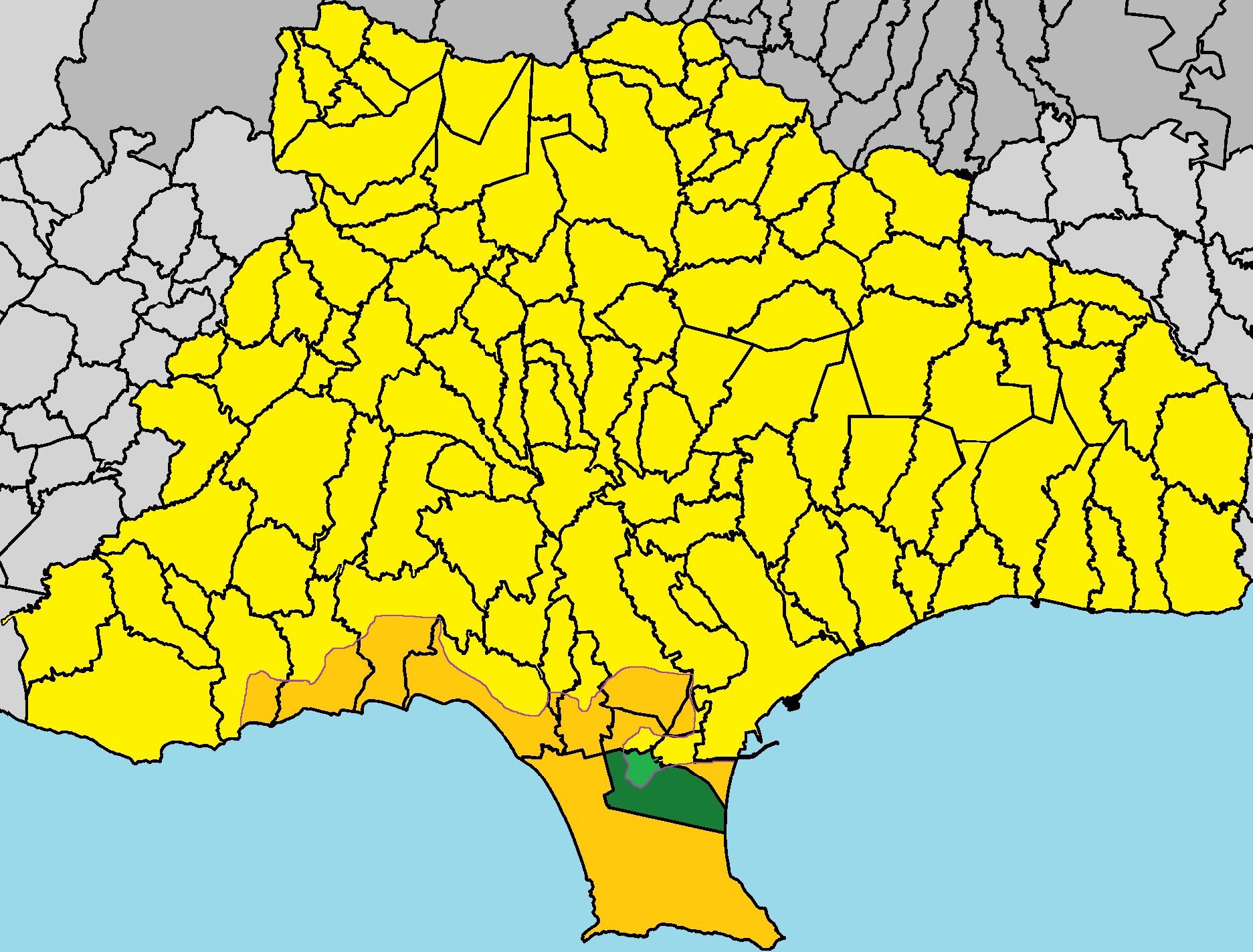 Asomatos, Limassol in Limassol District.